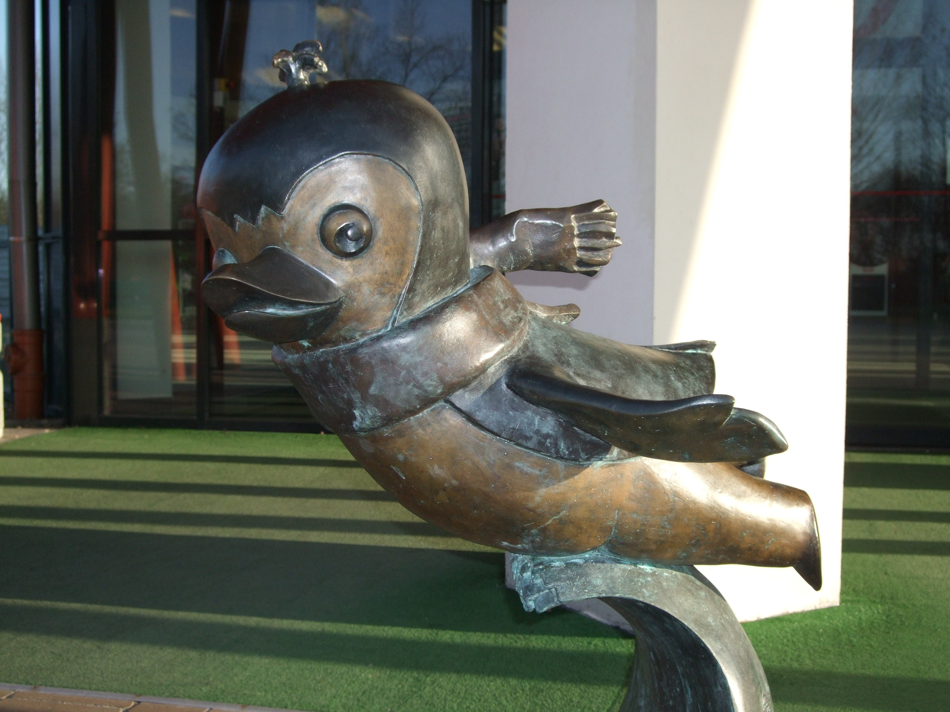 Penguin Pik-Pok, statue from polish cartoon, in front of swimming pool "Fala" in Łódź